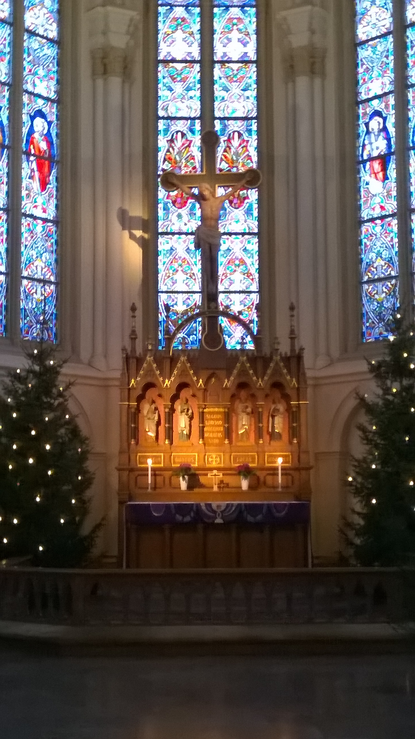 Altar, Christmas tree and crucifix inside the Sofia Church in Jönköping, Sweden